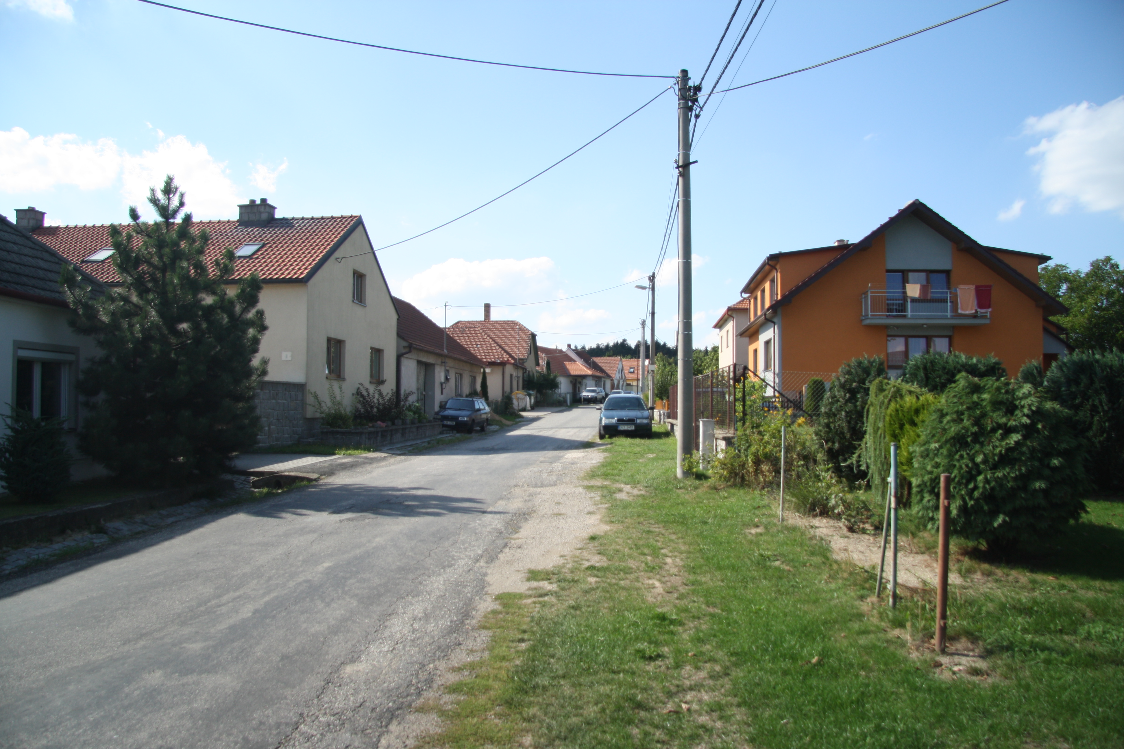 West part of Jáchymov, Velká Bíteš, Žďár nad Sázavou District.